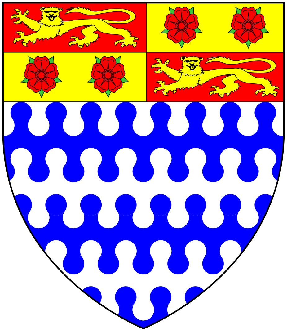 Arms of Merchant Adventurers Company of London: Barry nebulée of six argent and azure, a chief quarterly gules and or on the first and fourth quarters a lion passant guardant of the fourth on the second and third two roses gules barbed vert.[1]